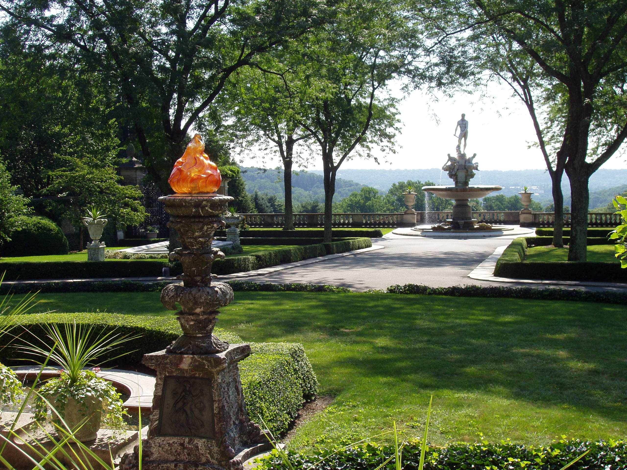 Kykuit, Tarrytown, New York - view from entryway. Photograph taken by me, September 2005.